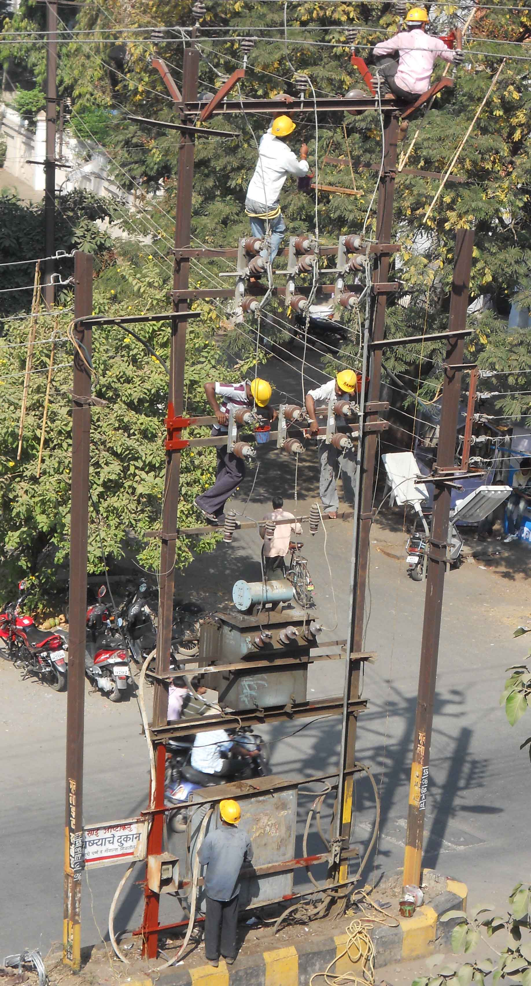 Workers using safety equipments while painting electric poles.